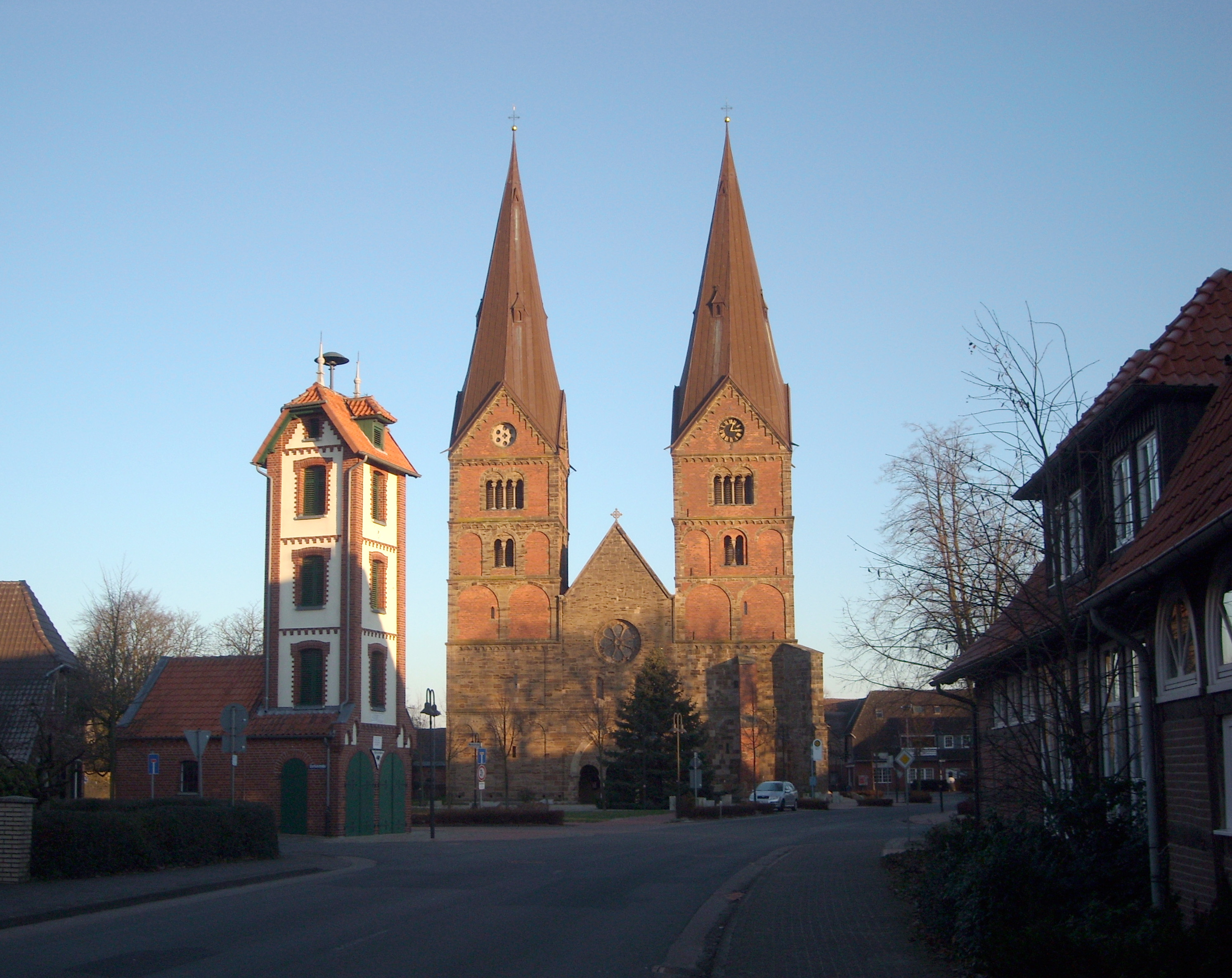 Church in Bücken, in the district of Nienburg, in Lower Saxony, Germany